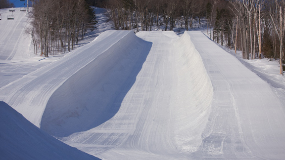 Snowpipe